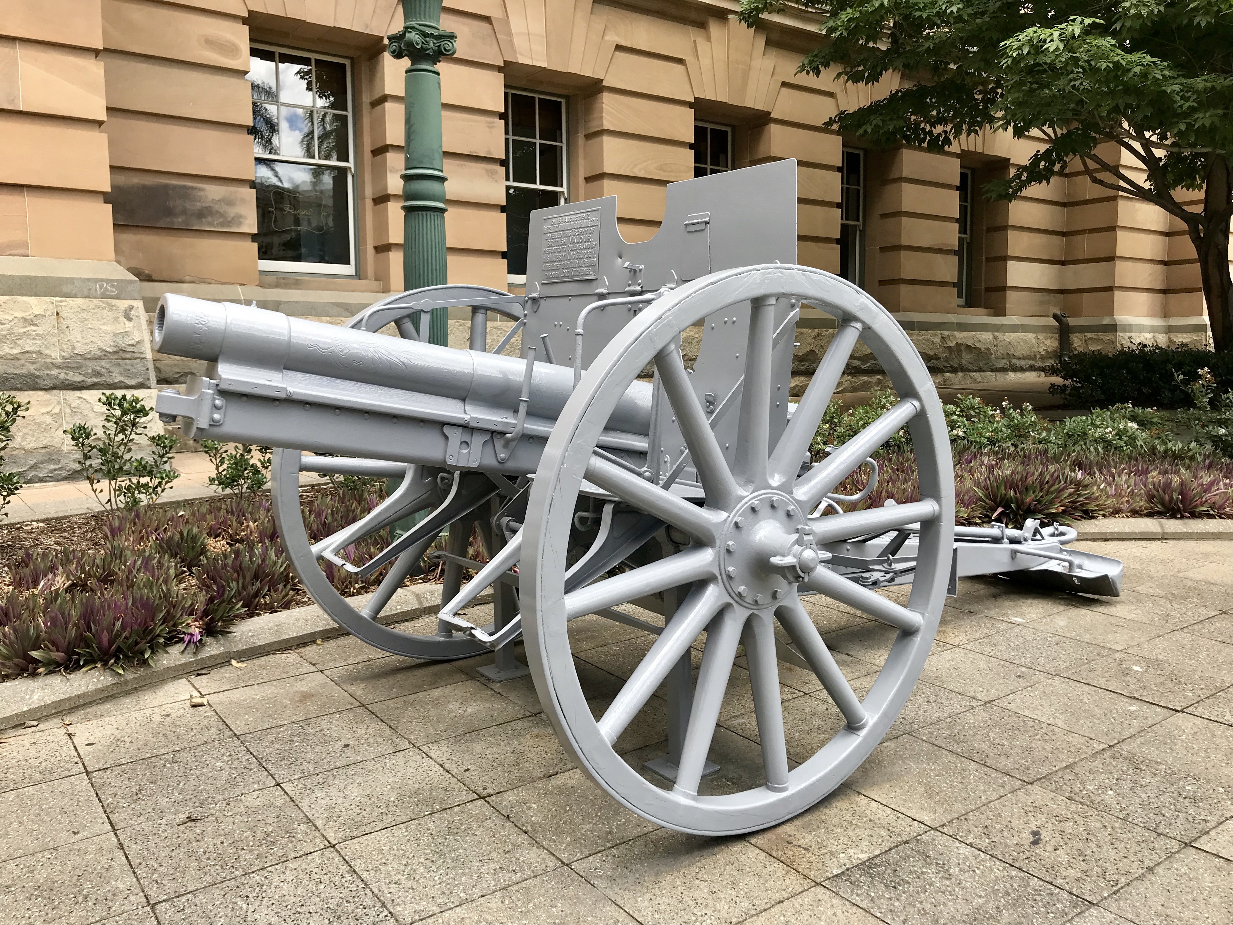 Trophy of British Valour at the Queens Gardens, Brisbane